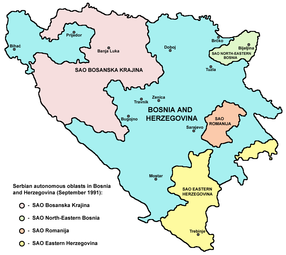 Serbian autonomous oblasts in Bosnia and Herzegovina (September 1991): SAO Bosanska Krajina SAO North-Eastern Bosnia SAO Romanija SAO Eastern Herzegovina